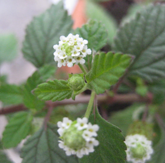 Picture of blooming Phyla dulcis